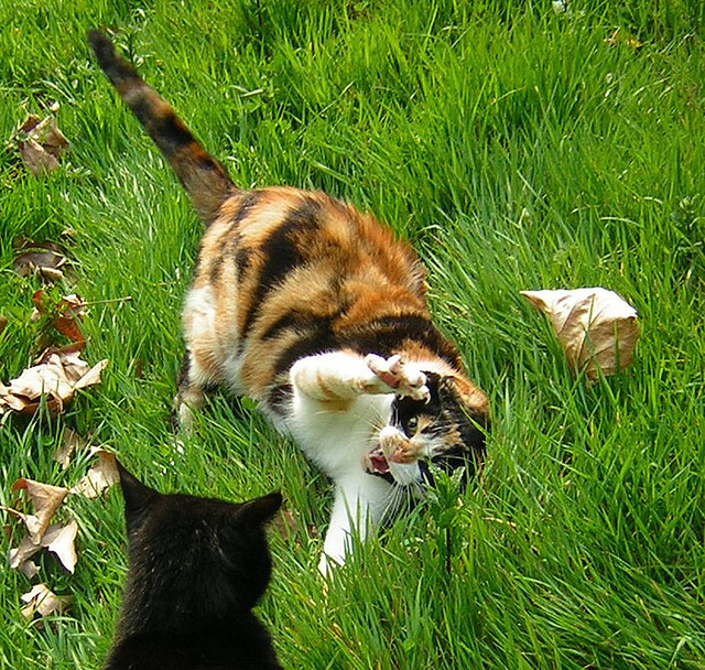 This is Jardina and Saphiri. Leafy and Saphiri had just had a spat, so Jardina intervened...Saphiri is fed up with Jardina's meddling (she's Saphiri and Leafy's mum) so gave her a bit of her own back....Saphiri faced her off and Jardina slunk up to the house somewhat put out...